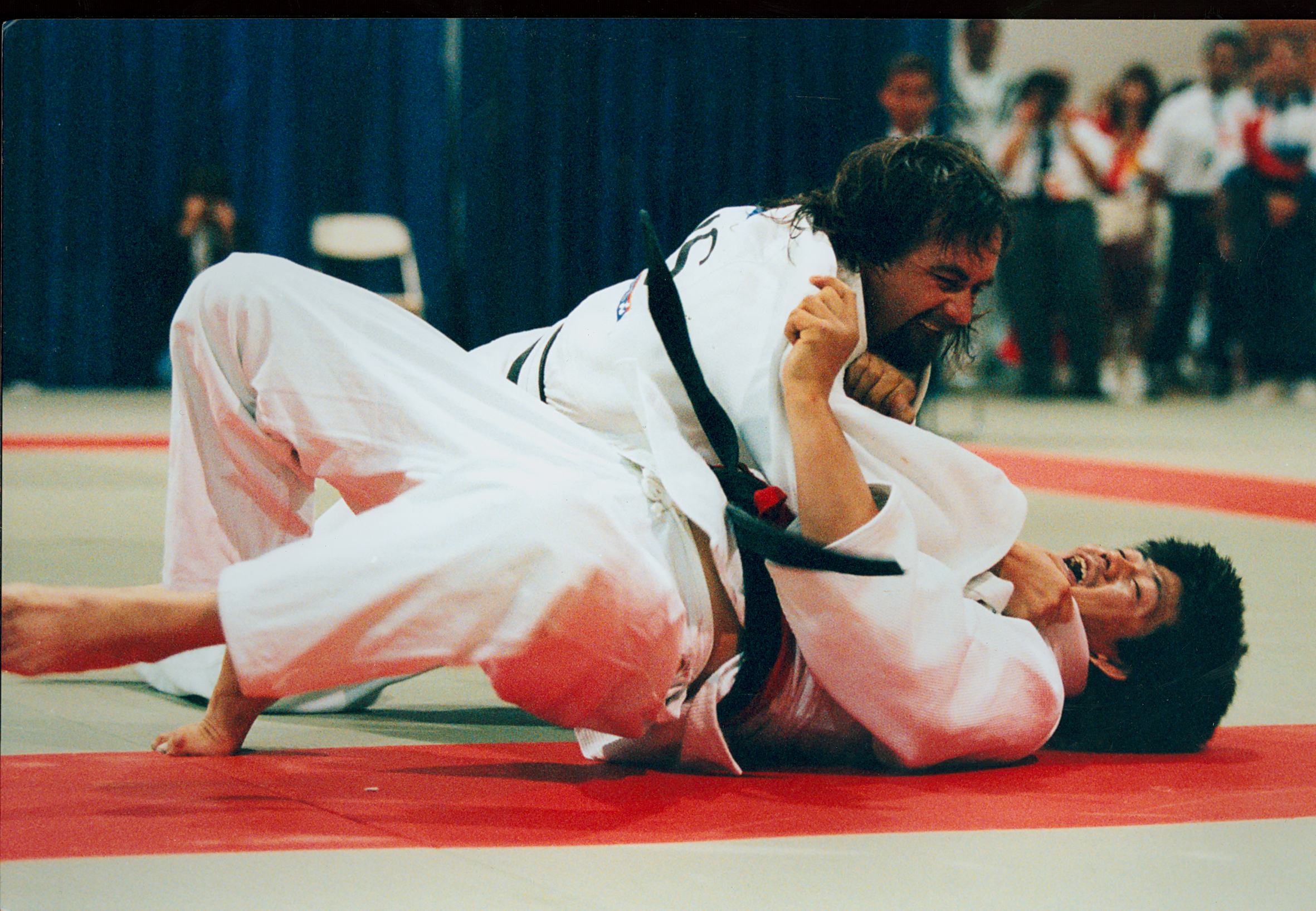 Australian judoka Anthony Clarke competes on his way to a gold medal at the 1996 Atlanta Paralympic Games